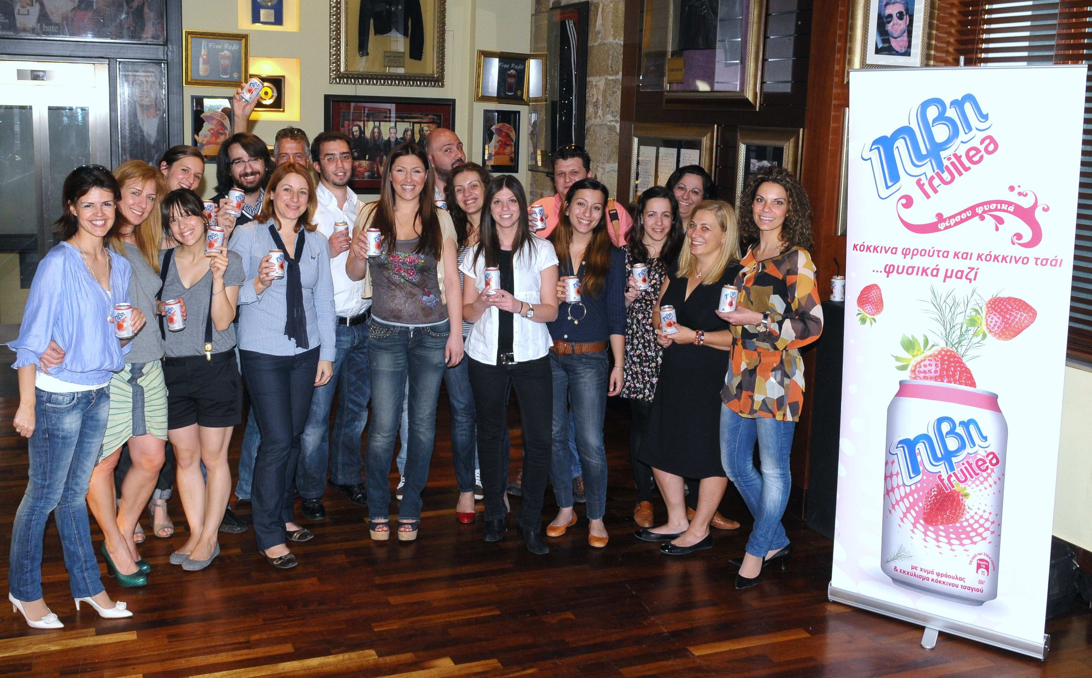 Elena Paparizou at the launch of Ivi Fruitea on 29 April 2010 at the Hard Rock Cafe in Athens.